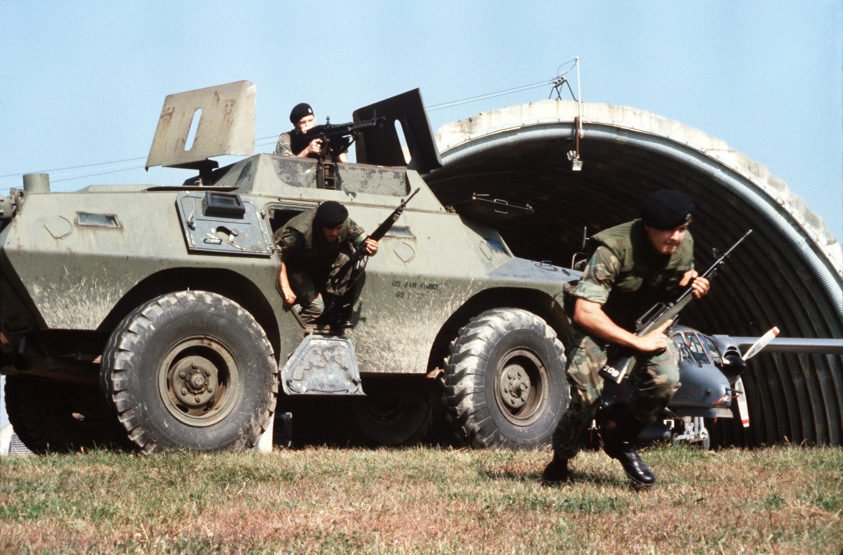 Security policemen leave an Cadillac Gage Commando armored personnel carrier on the run to defend an OV-10 Bronco aircraft during an operational readiness inspection. The policemen are from the 51st Security Police Squadron. Bi-monthly Aerospace Audio Visual Service Photo Contest, B&W Entry, Jul. 1980.